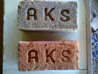 சுட்டசெங்கல்லும், சுடாதசெங்கல்லும்